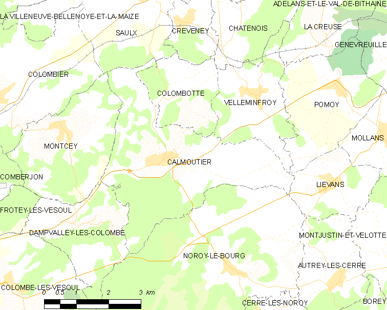 Map of French municipality